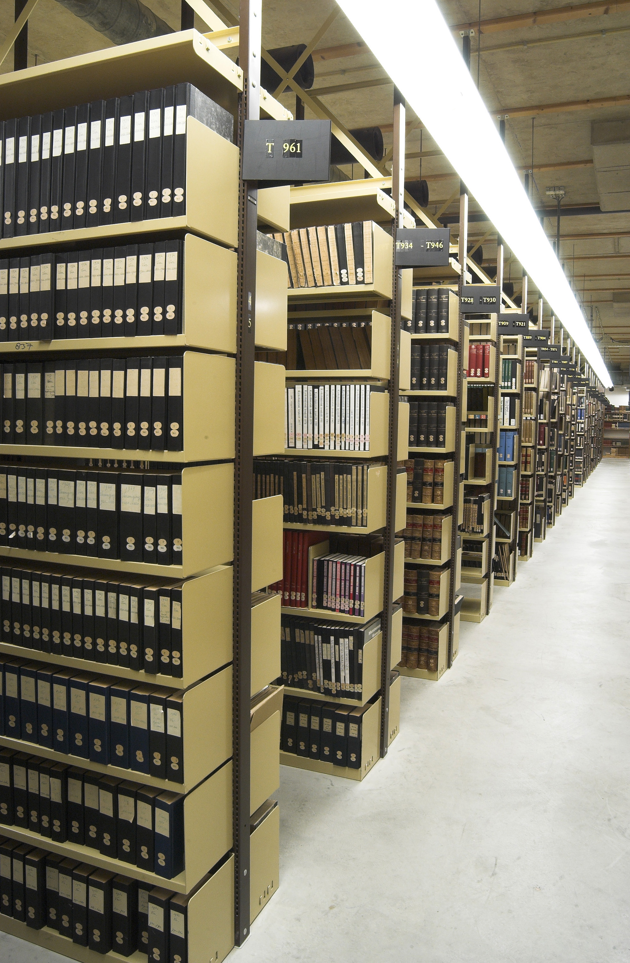 Magazijn, Koninklijke Bibliotheek, 2009 Voor meer informatie over de Koninklijke Bibliotheek, bezoek . Image uploaded on 02-10-2013 from the Flickr stream of the Royal Library, The Hague (Koninklijke Bibliotheek, KB, national library of the Netherlands)